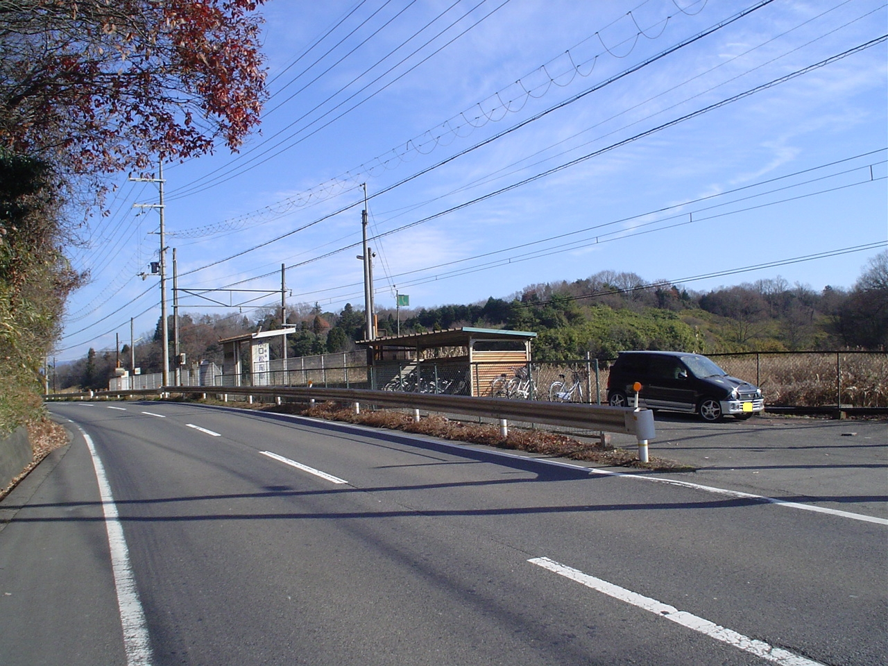 Minakuchi Matsuo Station in shiga pref, japan